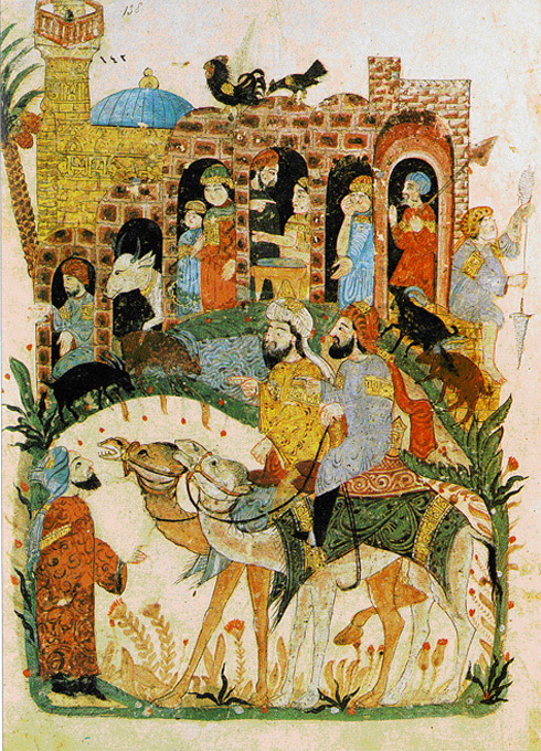 Rural Scenes by al-Wasiti, showing camels, poultry, sheep, goats and water buffalo. A palm tree leans near the village mosque with its minaret. From the 43rd maqāmah of the Maqāmāt al-Ḥarīrī